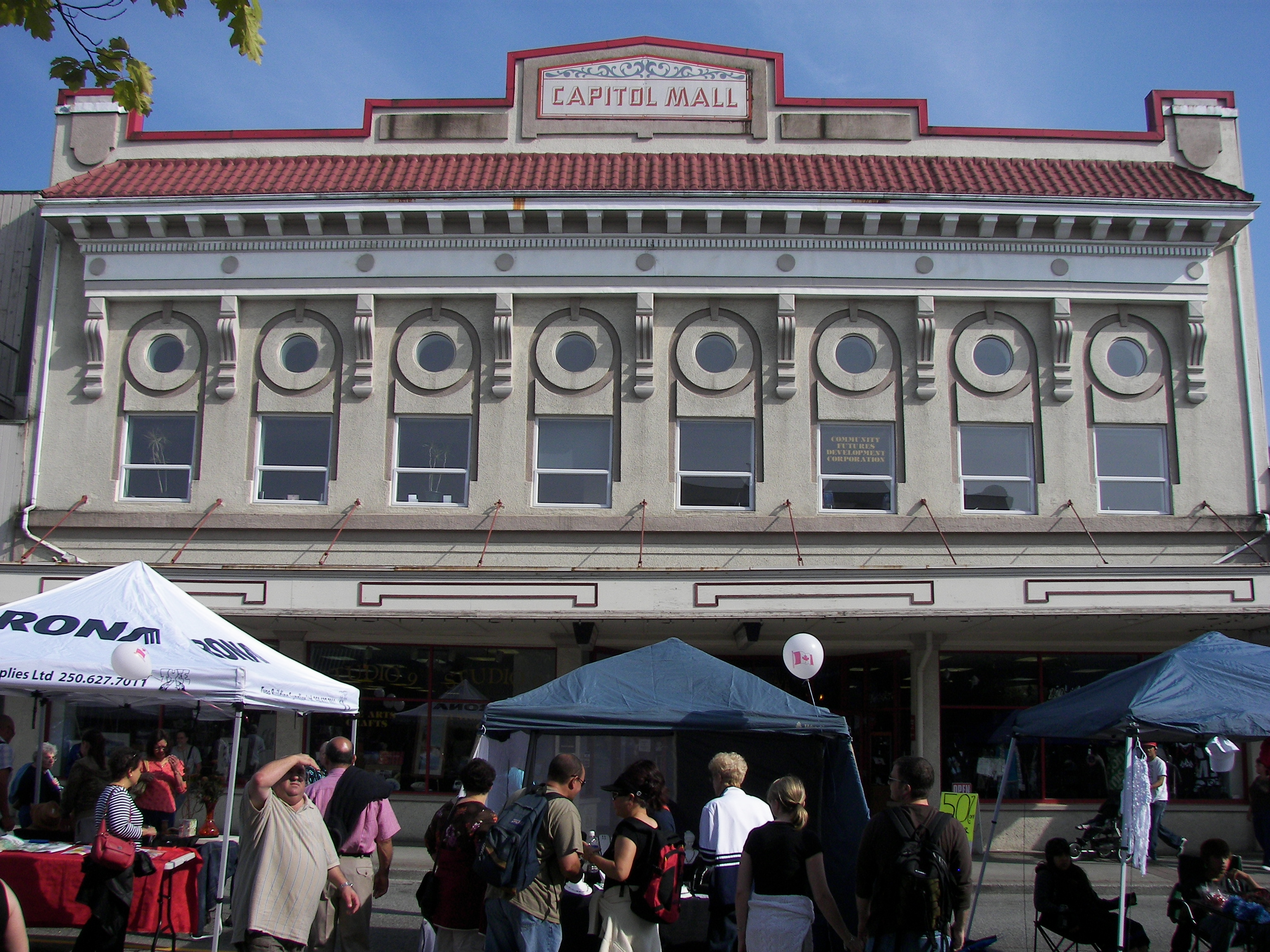 Capitol Mall, formerly the historic Capitol Theatre (built in 1928) on 3rd Avenue W in Prince Rupert, British Columbia.